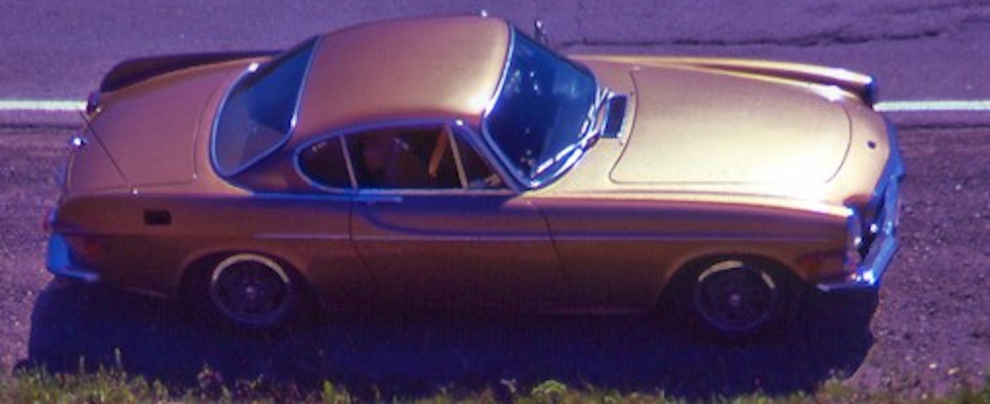 Volvo 1800E - 1972, 2000cc with fuel injection, purchased in Nov 1971, retired in 2008, one owner car by the photographer.